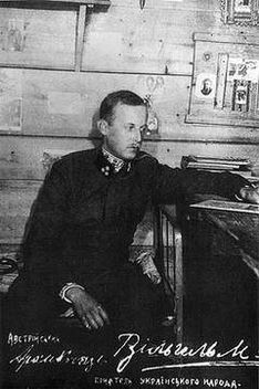 Picture of Wilhelm Hapsburg (Vasyl Vyshyvanyi)